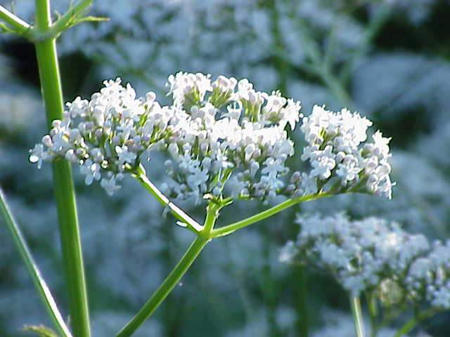 Species: Valeriana officinalis Family: Valerianaceae Image No. 2